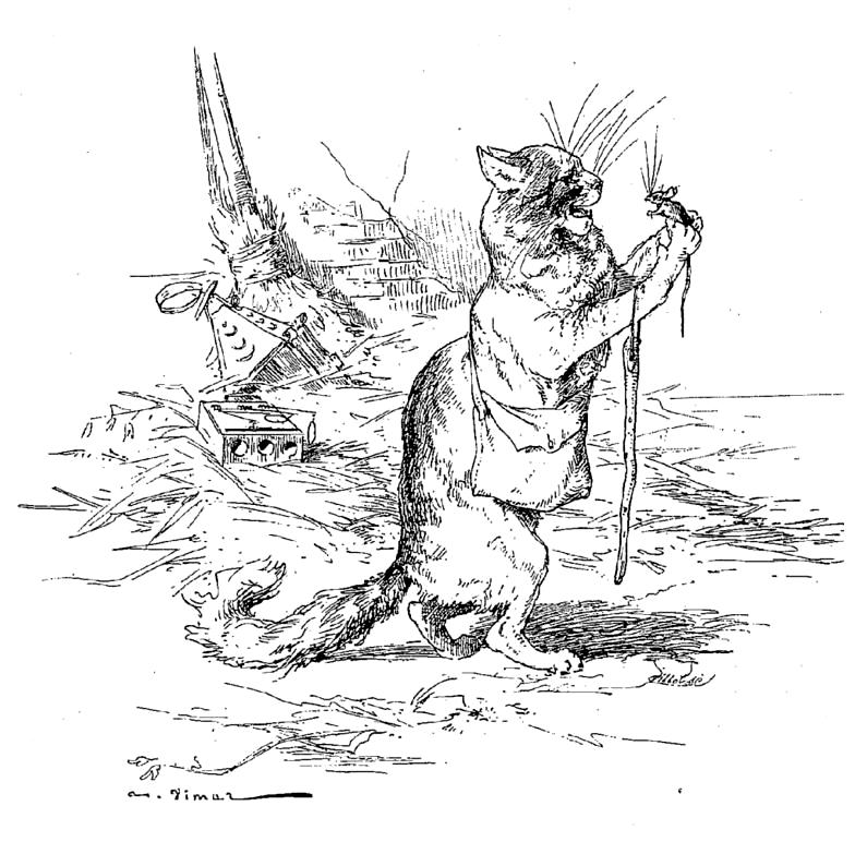 Illustration of "Le vieux chat et la jeune souris" by Auguste Vimar (1851-1916) from an 1897 edition of La Fontaine's Fables